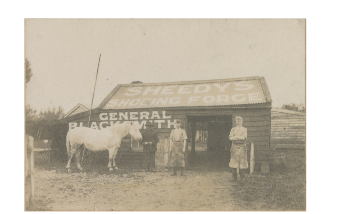 Photograph of Sheedy's Shoeing Forge and General Blacksmiths, Otautau, with Dan Lynch holding his horse, outside the workshop.